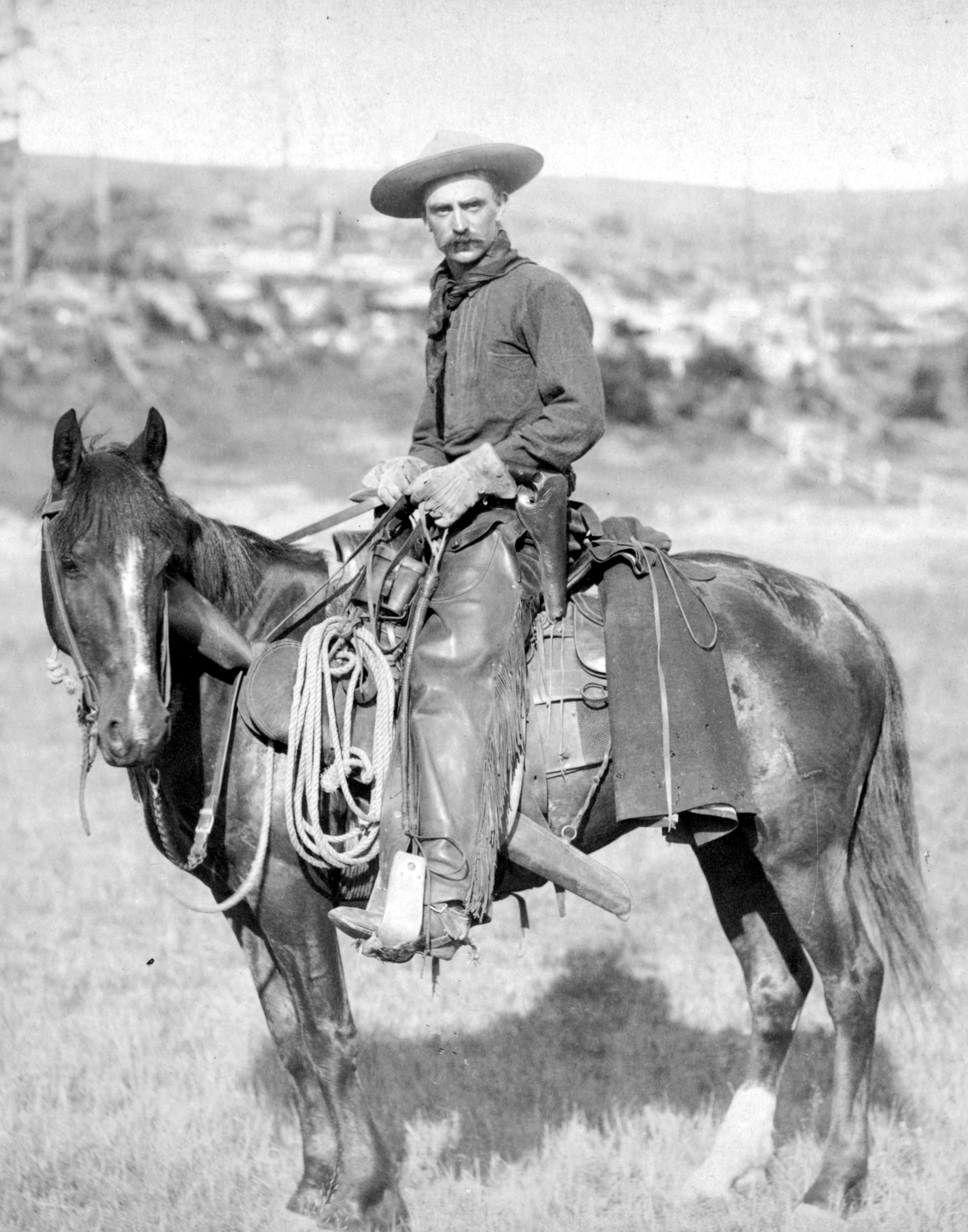 Cowboy (1887). Mounting card attached to original indicates Grabill was living in Sturgis, Dakota Territory at the time.